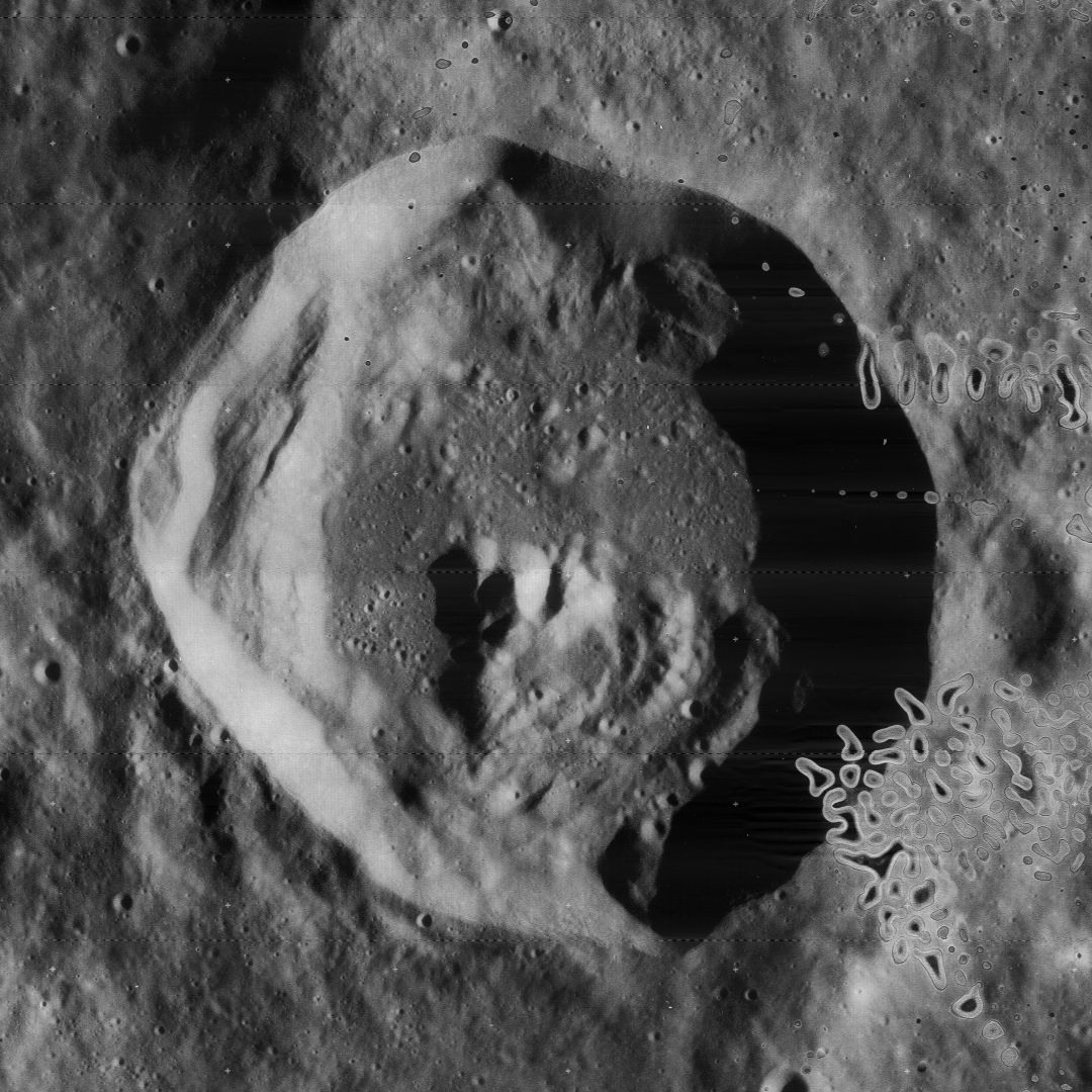 Balboa A crater (southeast of Balboa), on the moon. Splotches at right are blemishes on the original.